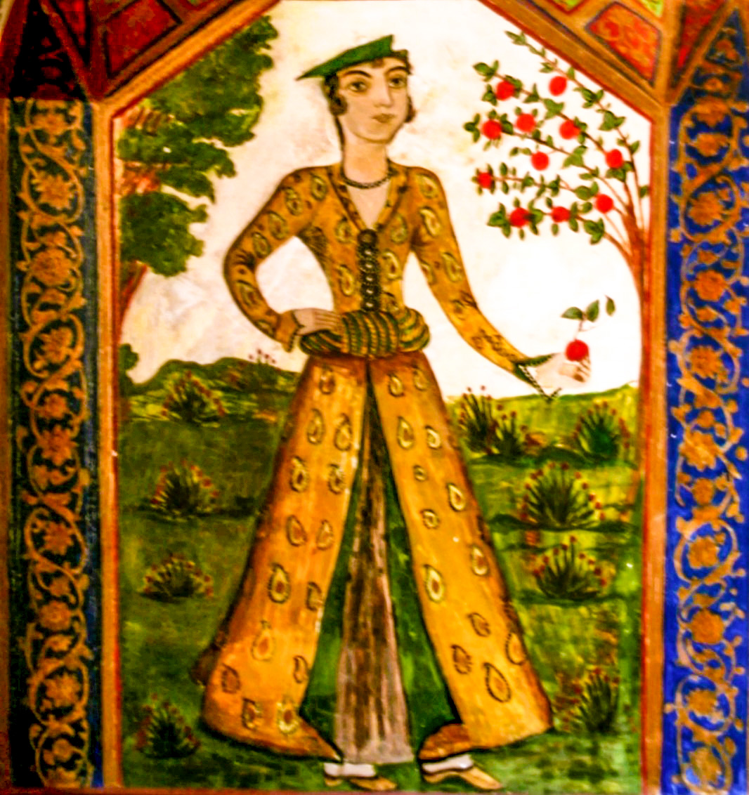 Дом Шекихановых 2 edited